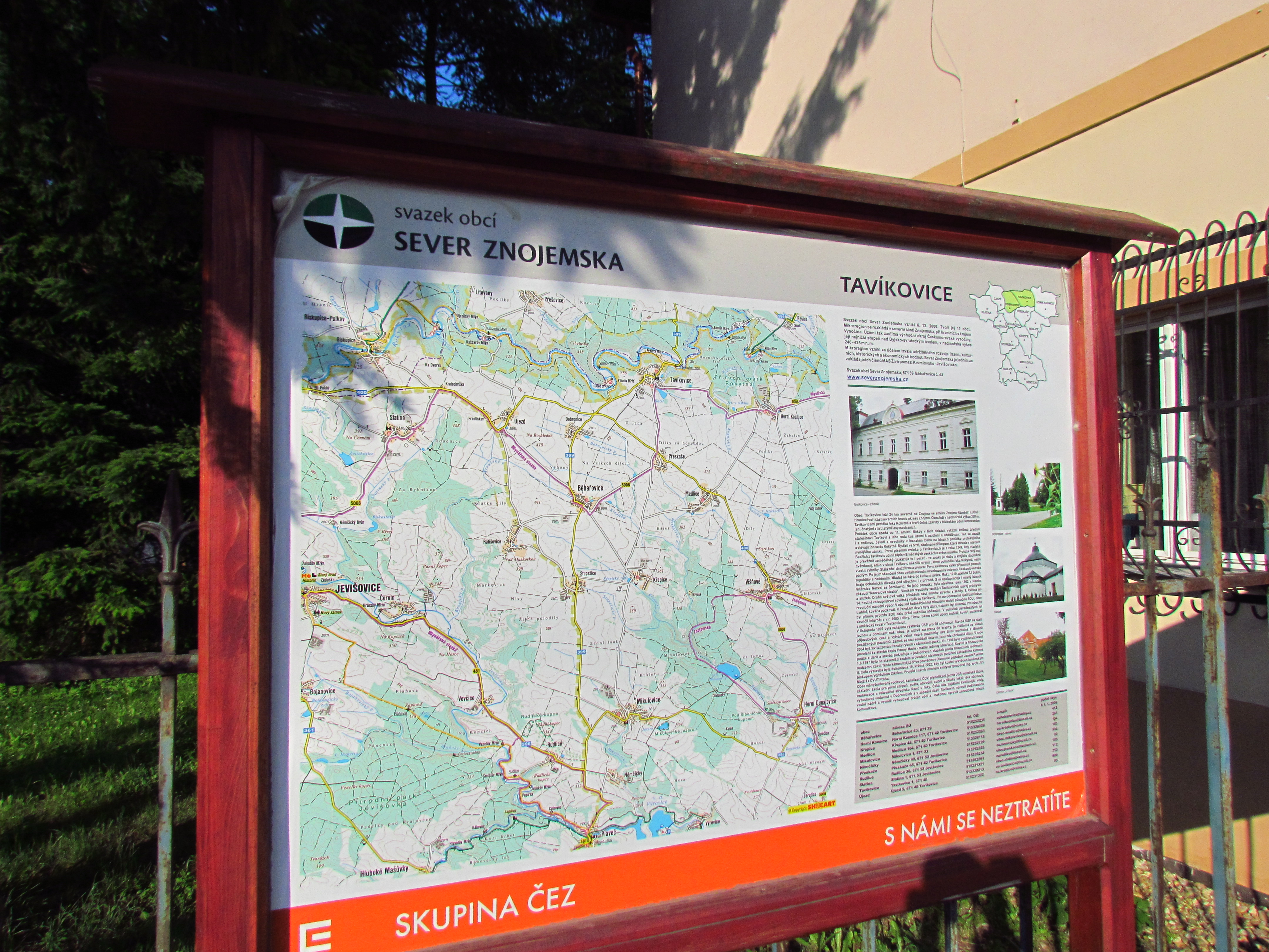 Sign of Svazek obcí Sever Znojemska in Tavíkovice, Znojmo District.